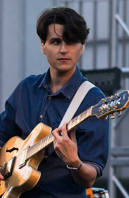 Ezra Koenig performing with Vampire Weekend in 2014 in San Francisco